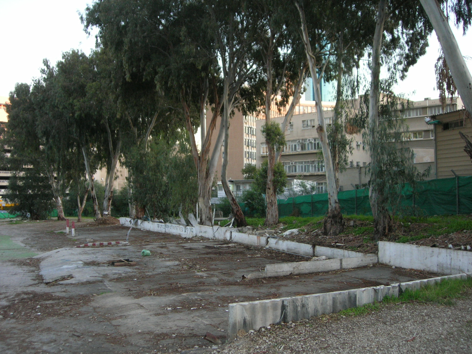 Area of Kiryat Seffer Garden before it was built